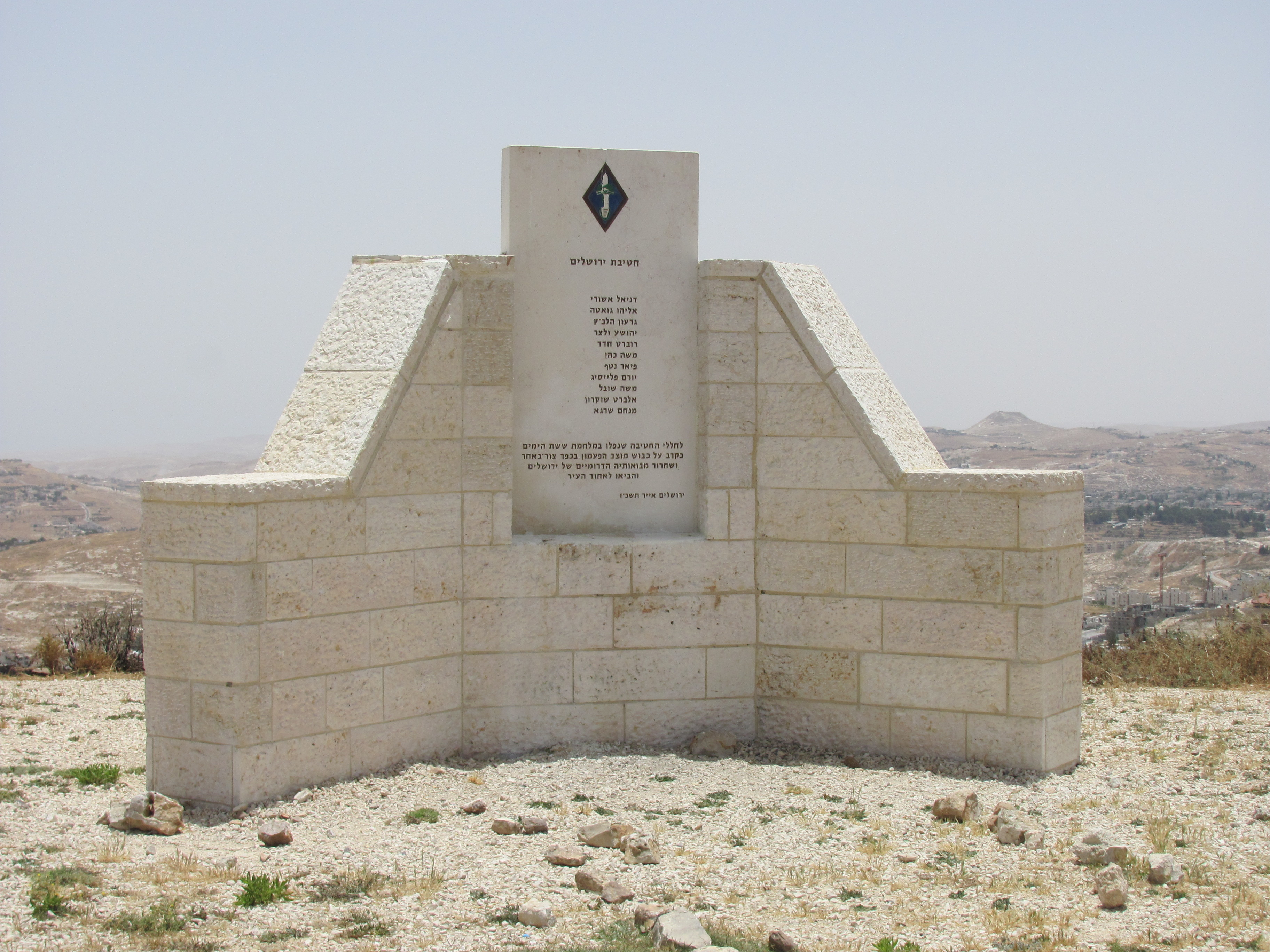 A Cenotaph in memory of the soldiers who fell in the battle for "The Bell" fortification outside Ramat Rachel kibbutz.